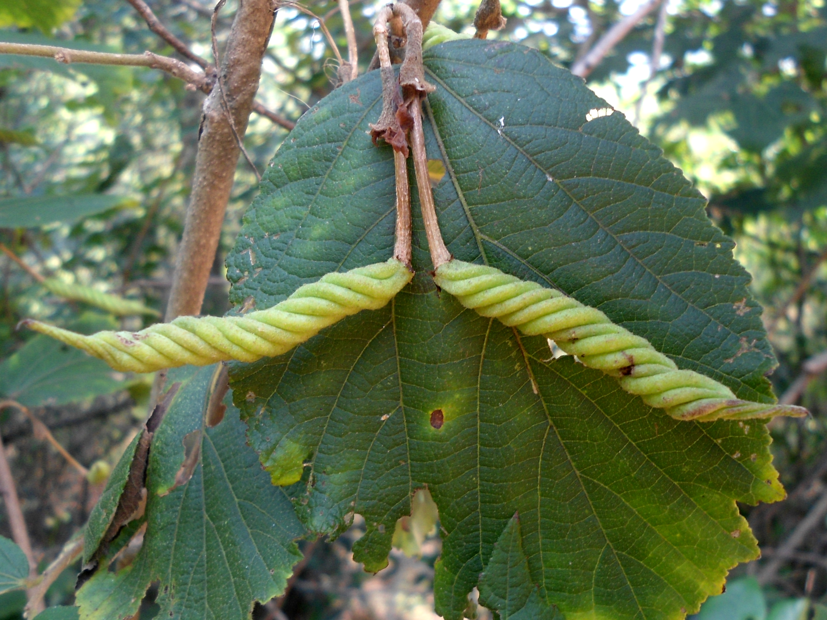 (Helicteres isora) East Indian screw tree seed at Kambalakonda wildlife Sanctuary, Visakhapatnam